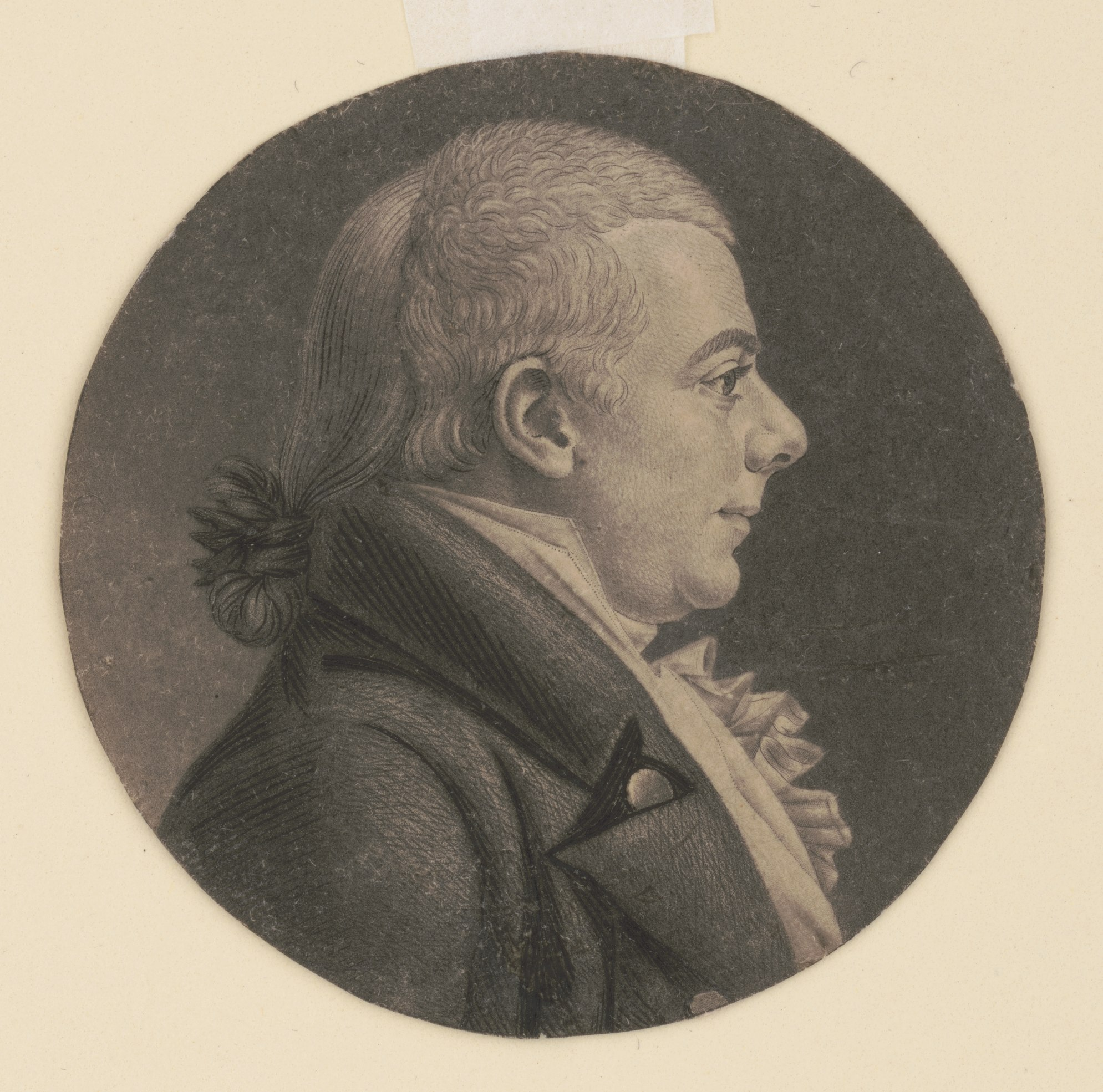 Title: Benjamin Huger, head-and-shoulders portrait, right profile Abstract/medium: 2 prints : engraving.